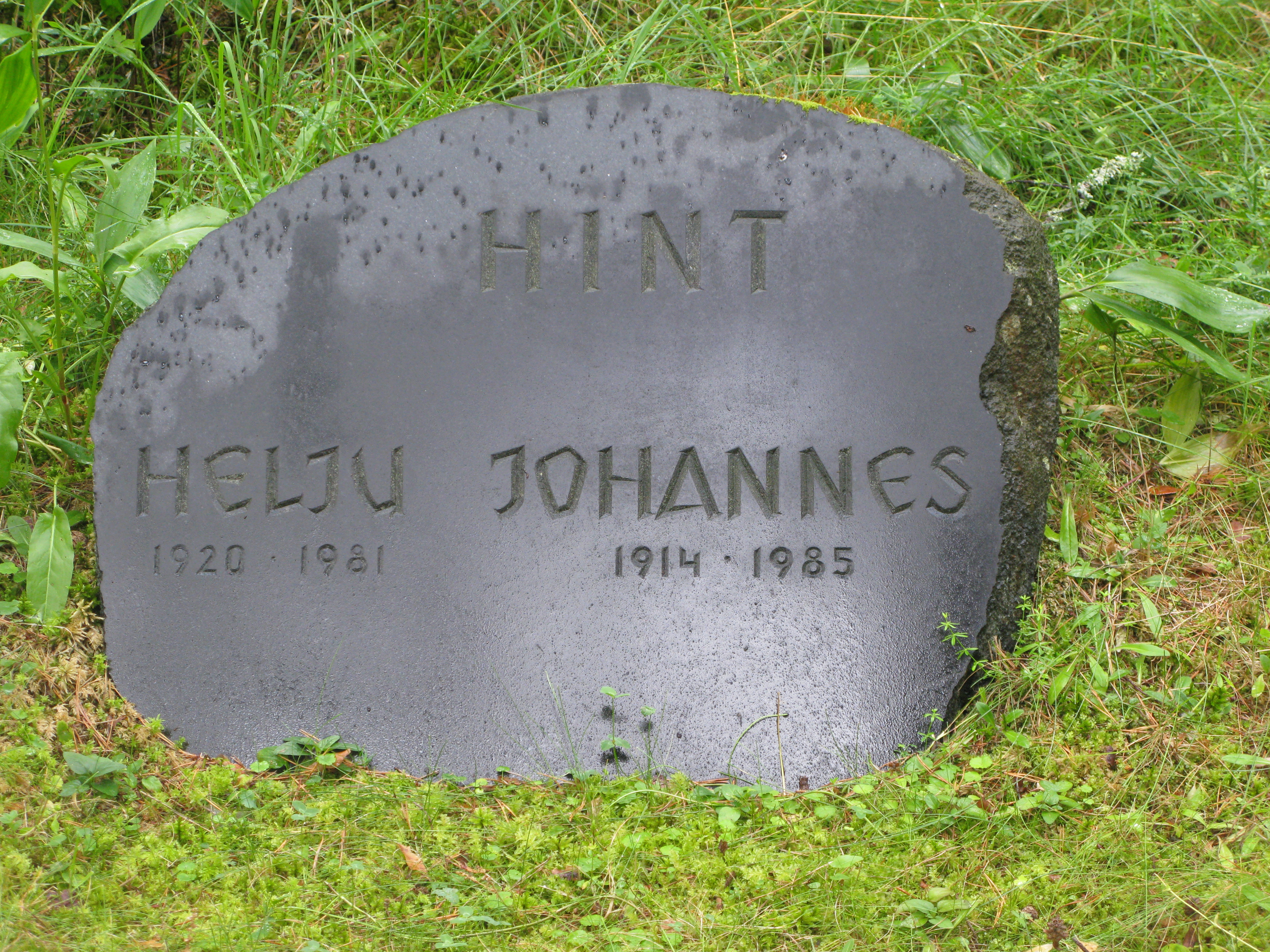 The tombstone of Johannes Hint (1914—1985) — Estonian and USSR inventor, and his wife Helju (1920—1981). Place: Metsakalmistu (Tallinn).